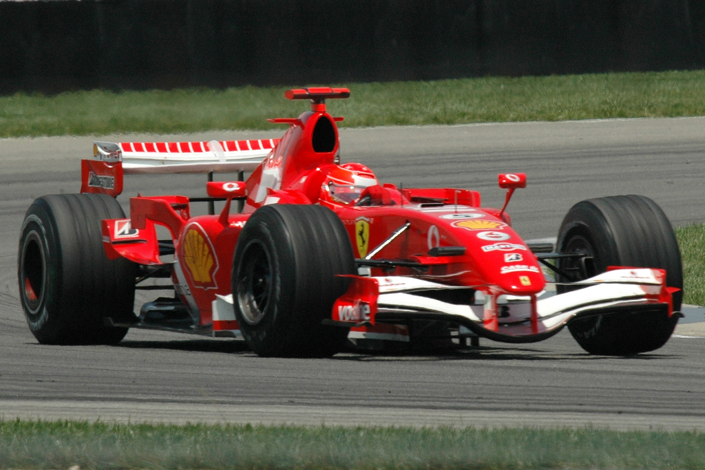 Michael Schumacher driving for Scuderia Ferrari at the 2006 United States Grand Prix.